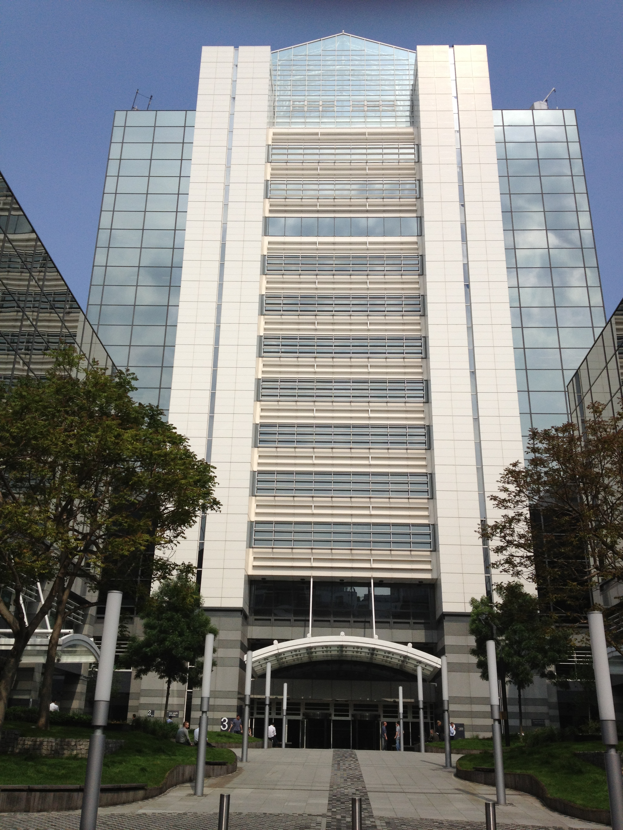 News Internaltional Building at 3 Thomas More Square in London, England